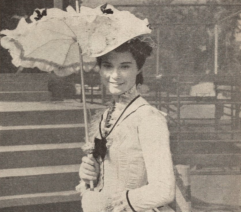 Diane Baker 1960